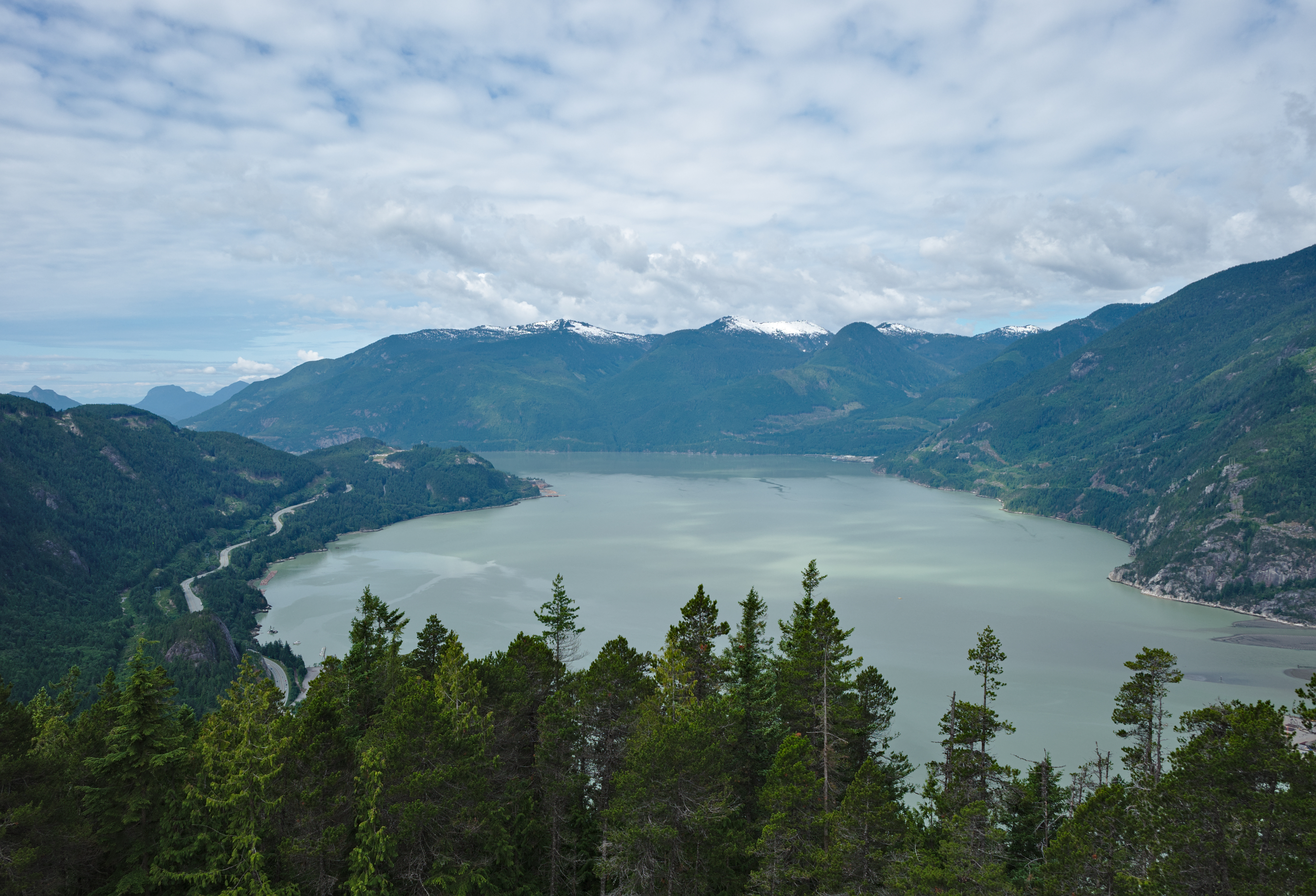 View of Howe Sound from first peak of the Chief hike at Stawamus Chief Provincial Park, BC This photo was taken in a protected area in Canada, Wikidata item Stawamus Chief Provincial Park (Q1277588)